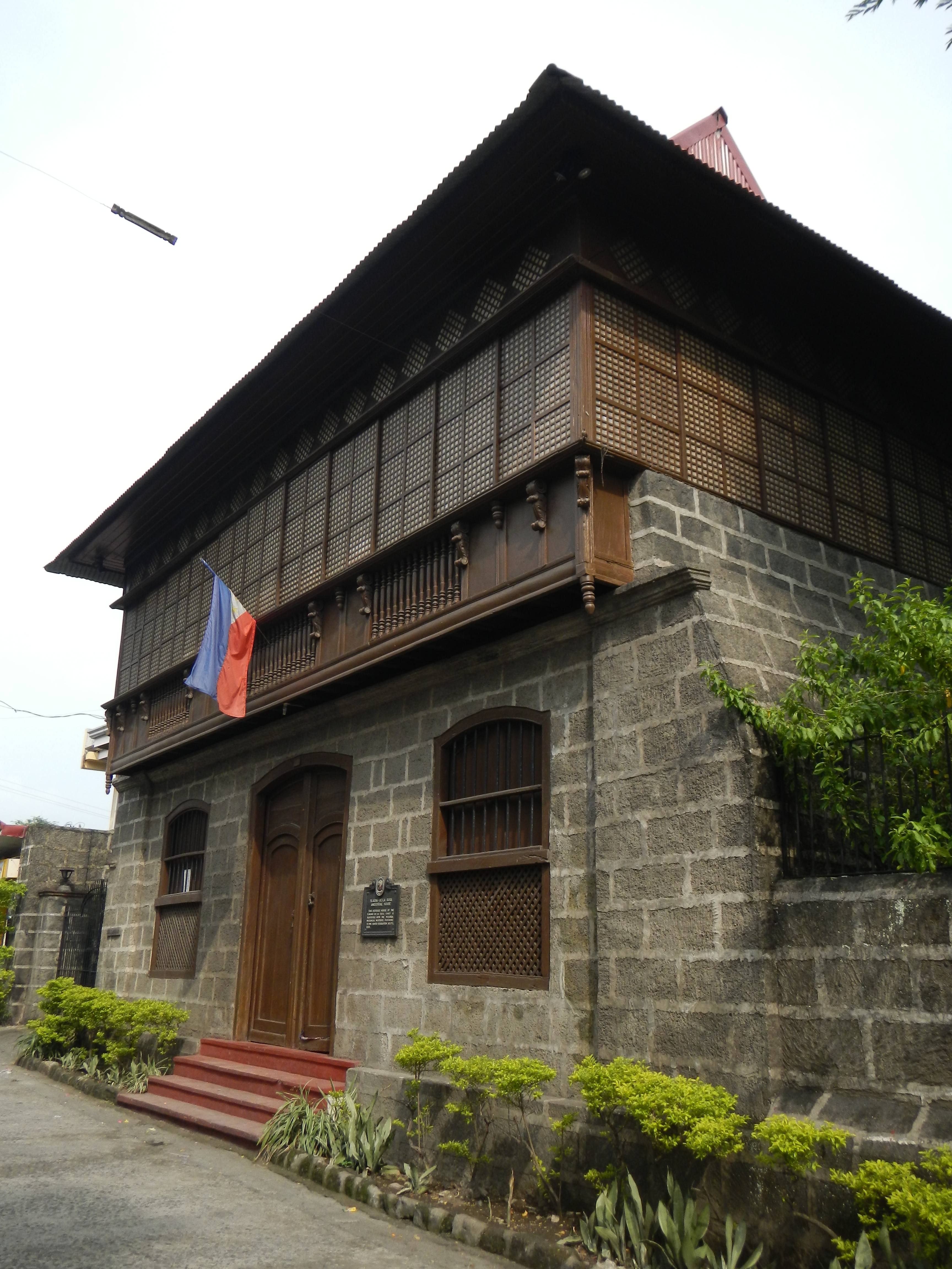 Ylagan-De la Rosa Ancestral House[1] [2] Taal, Batangas (Region IV-A) Category: Building Type: House Status: Heritage House Marker Date: May 30, 1999 Marker Text:NHI BOARD RESOLUTION NO. 9, S. 1998 --- Ancestral houses of the Philippines[3] --- Taal, Batangas[4]Taal is a second class municipality in the province of Batangas, Philippines. According to the latest census, it has a population of 51,459 people in 8,451 households.